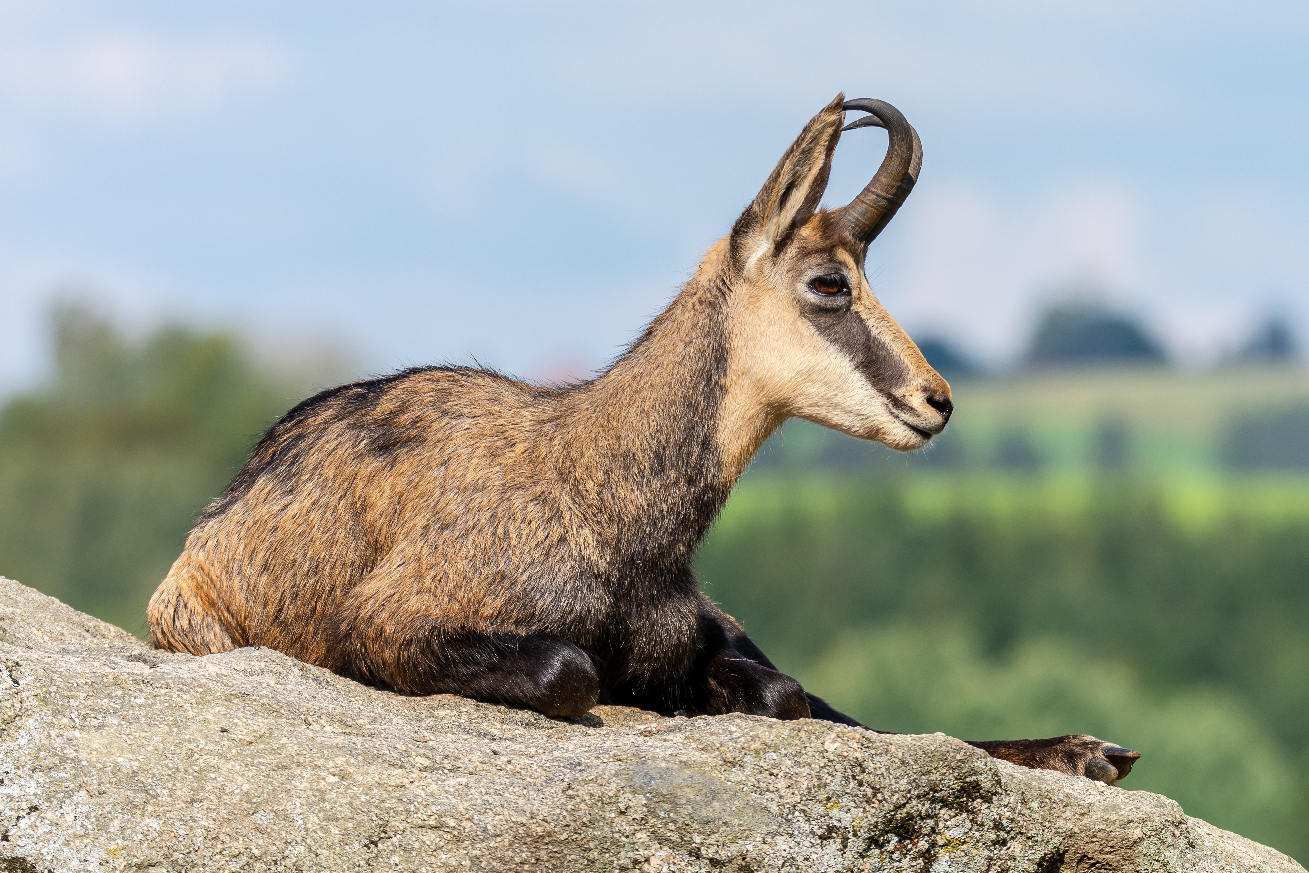 Chamois (Rupicapra rupricapa) in the wildlife park of Altenfelden (Upper Austria)